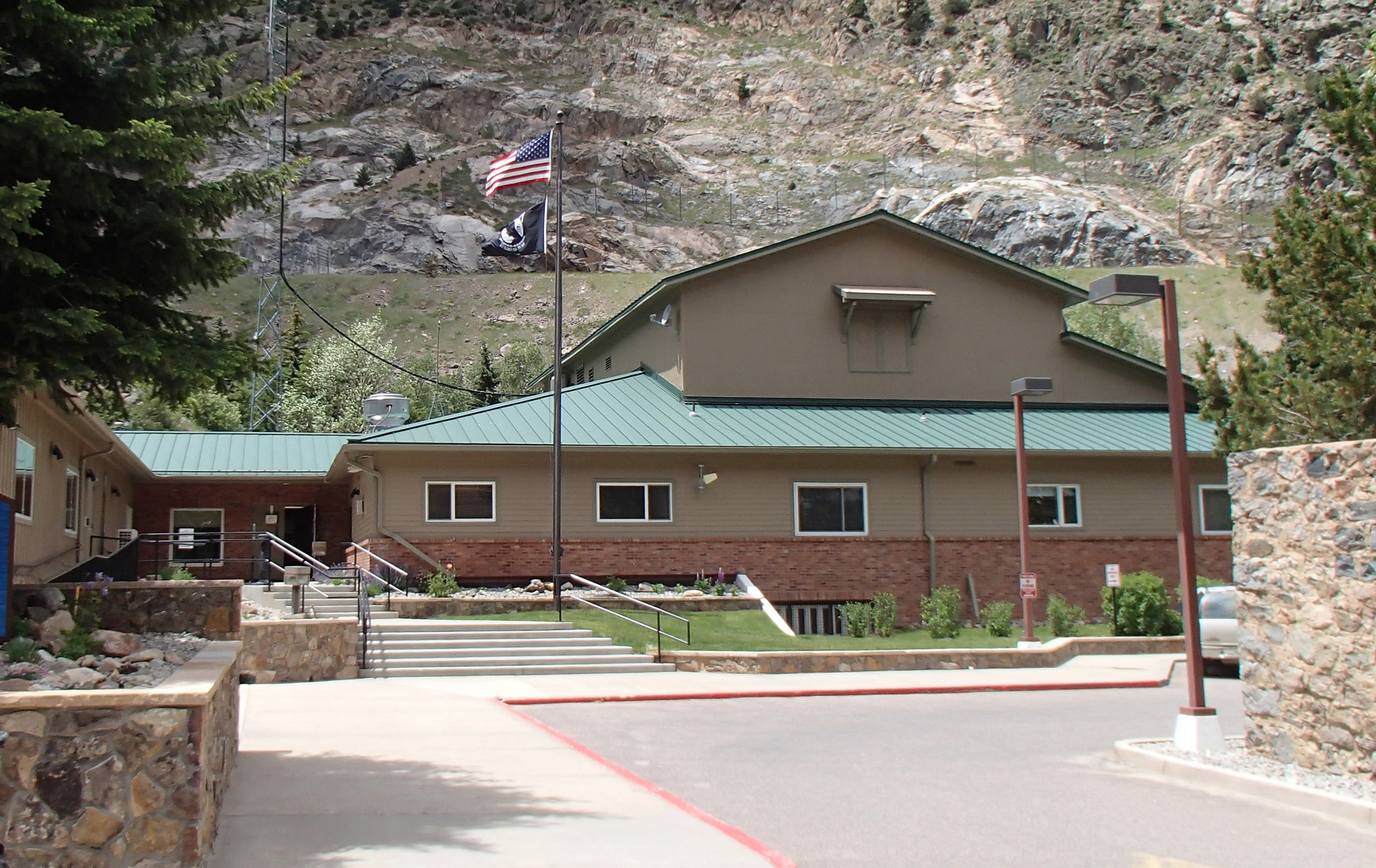 Clear Creek Courthouse in Georgetown, Colorado